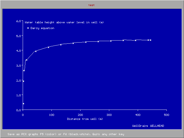 Shape of the watertable in an aquifer drained by wells